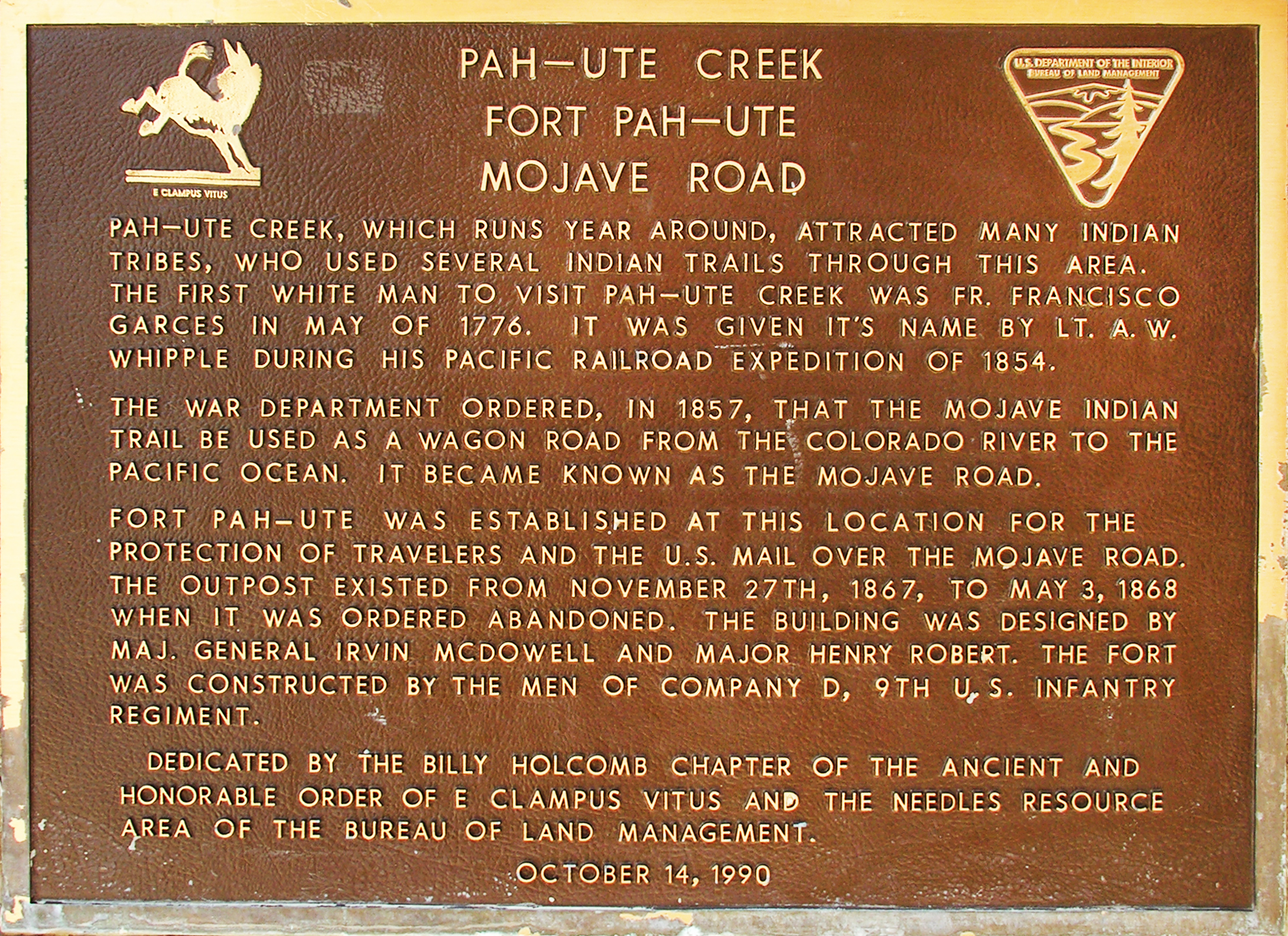 Plaque commemorating the Old Mojave Road where it crosses Pah-Ute Creek near former Fort Pah-Ute, Mojave Desert, California